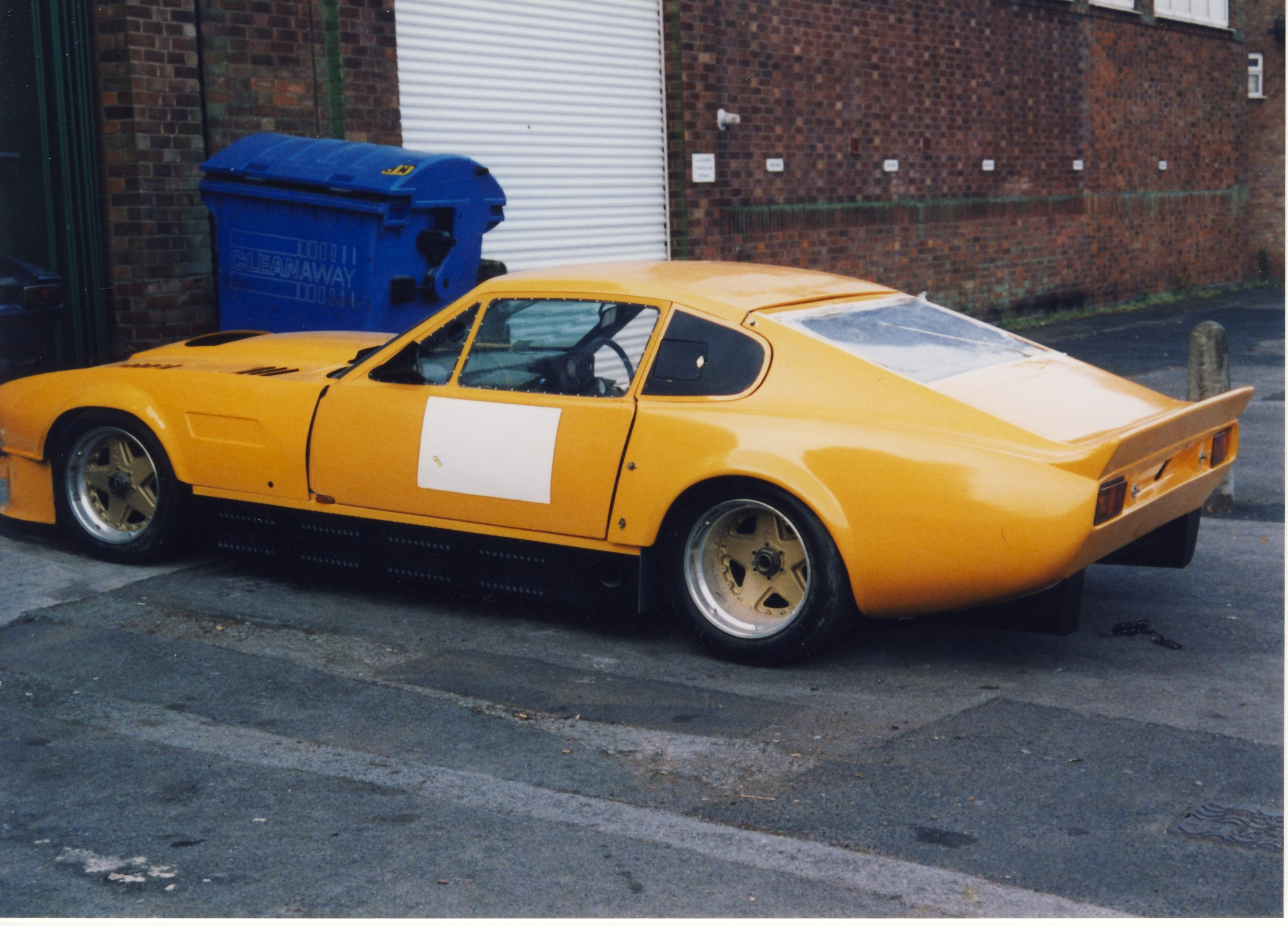 Aston Martin DPLM